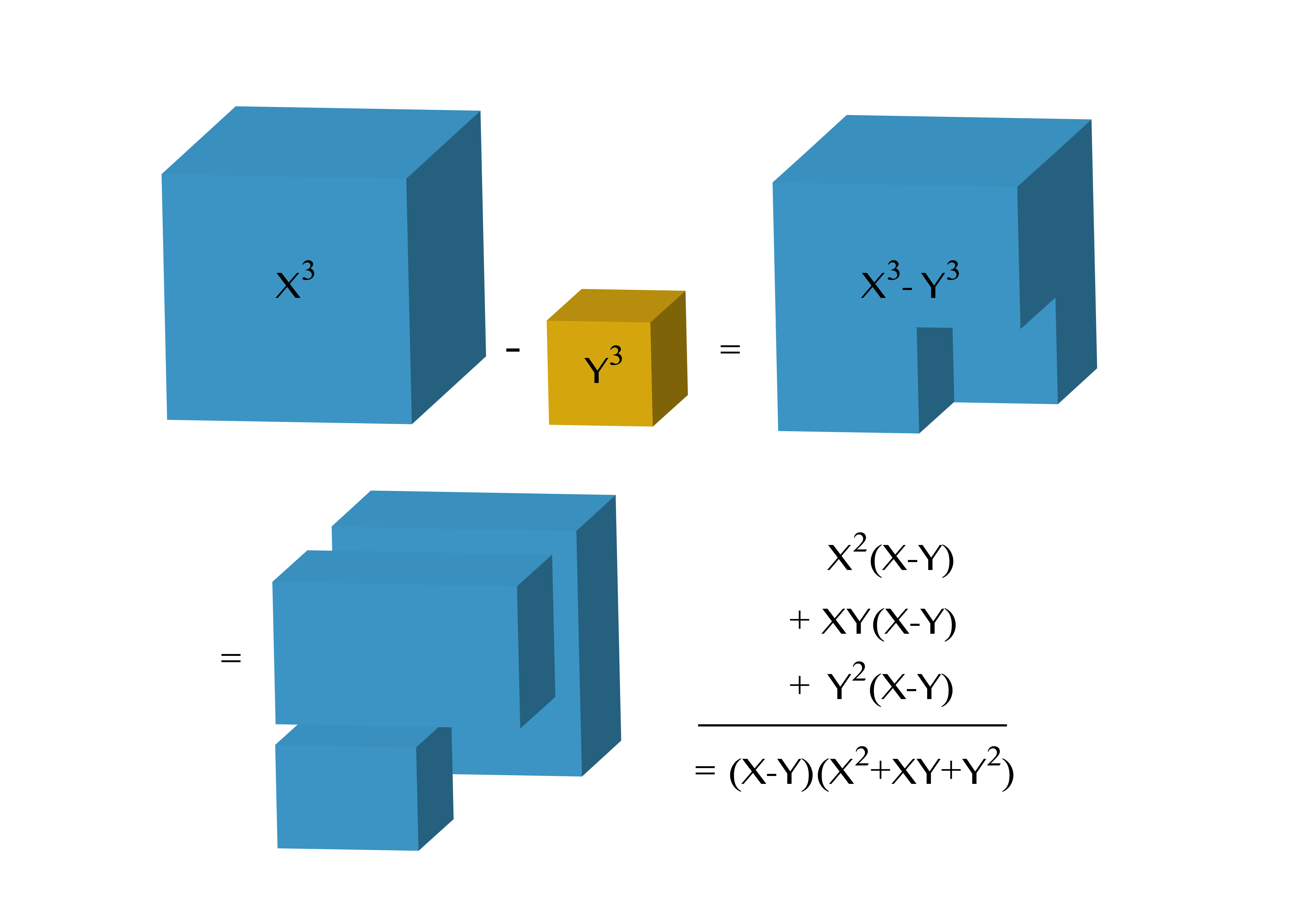 A visual representation of the factorization of cubes using volumes.